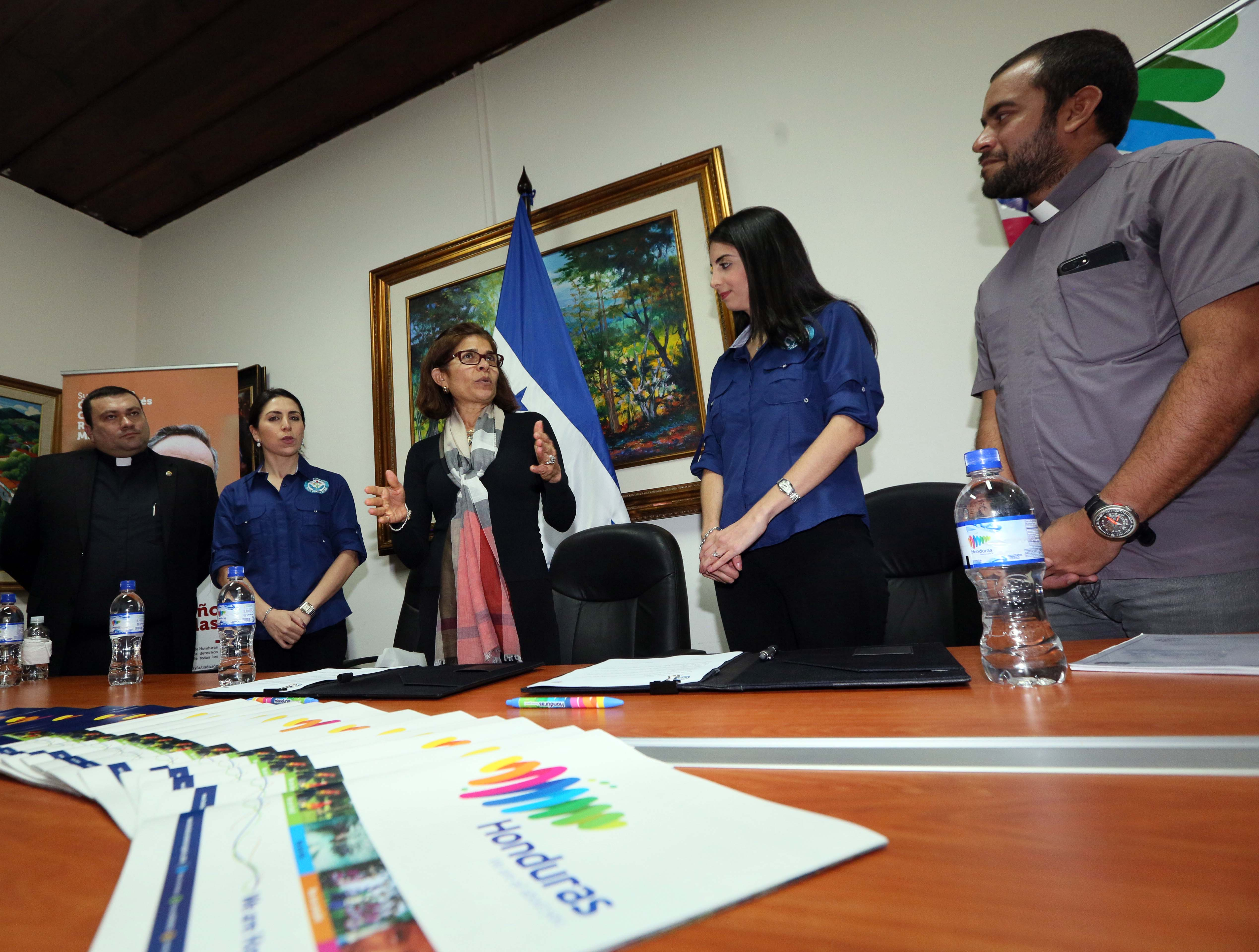 Fundación Chito y Nena Kafie y Marca Pais